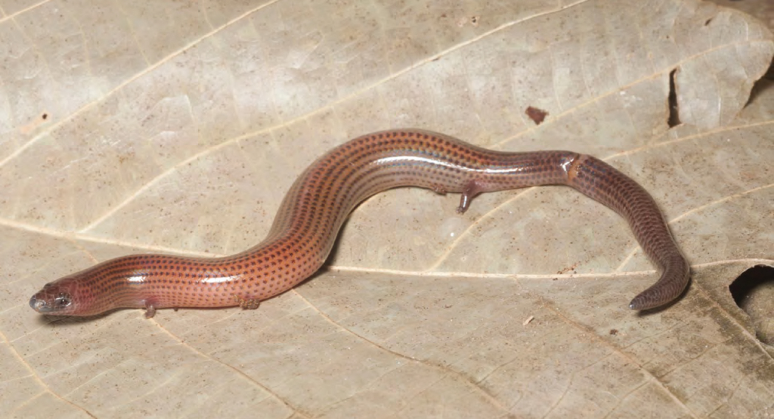 Brachymeles muntingkamay (KU 330093) from 900 m on Mt. Cagua. Photo: RMB.